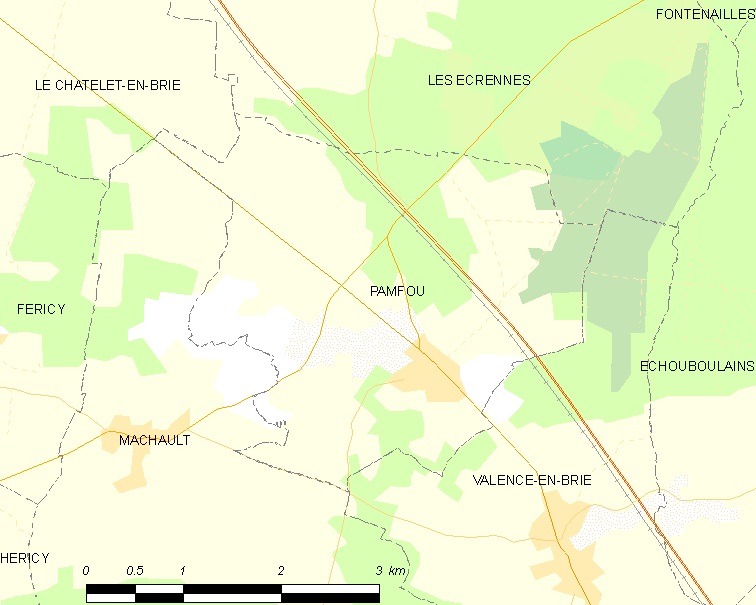 Map of French municipality Pamfou